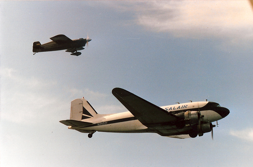 David Byrne's Cassutt Special "Buster", flying together with a Douglas DC-3.